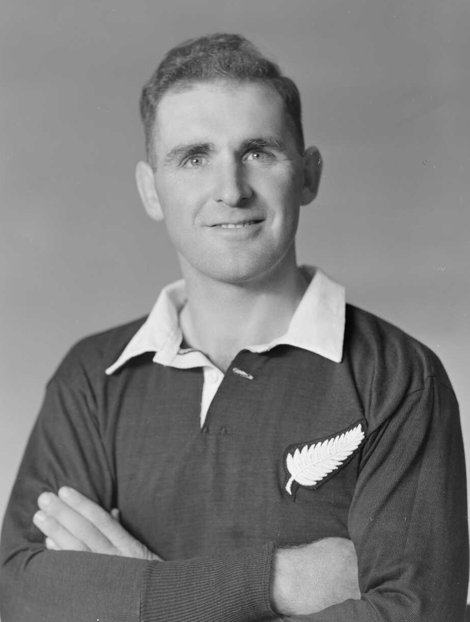 Photograph of Mr G.N. Dalzell, All Black rugby player, taken by Crown Studios Ltd of Wellington